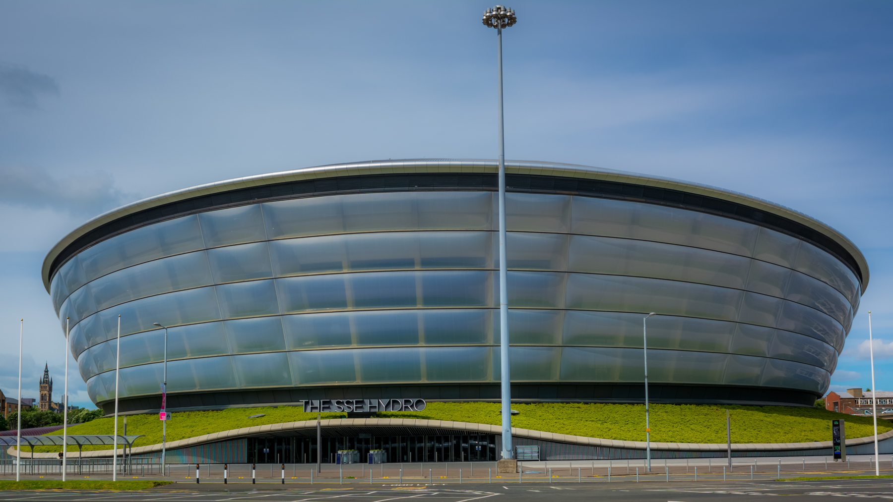 The SSE Hydro